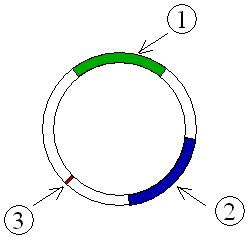 Description : This image shows a line drawing of a plasmid. The plasmid is drawn as two concentric circles that are very close together, with two large segments and one small segment marked off on the two circumferences. The two large segments indicate antibiotic resistances and the small segment indicates an origin of replication. 05:19, 14 August 2002 Magnus Manske 248x242 (1,921 bytes) (Copied from Nupedia)